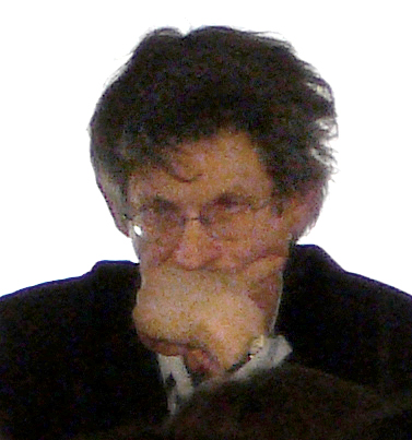 Alan Rusbridger at the mediaGuardian meeting on Changing Media 2007, session title: The future of media? See related blog post